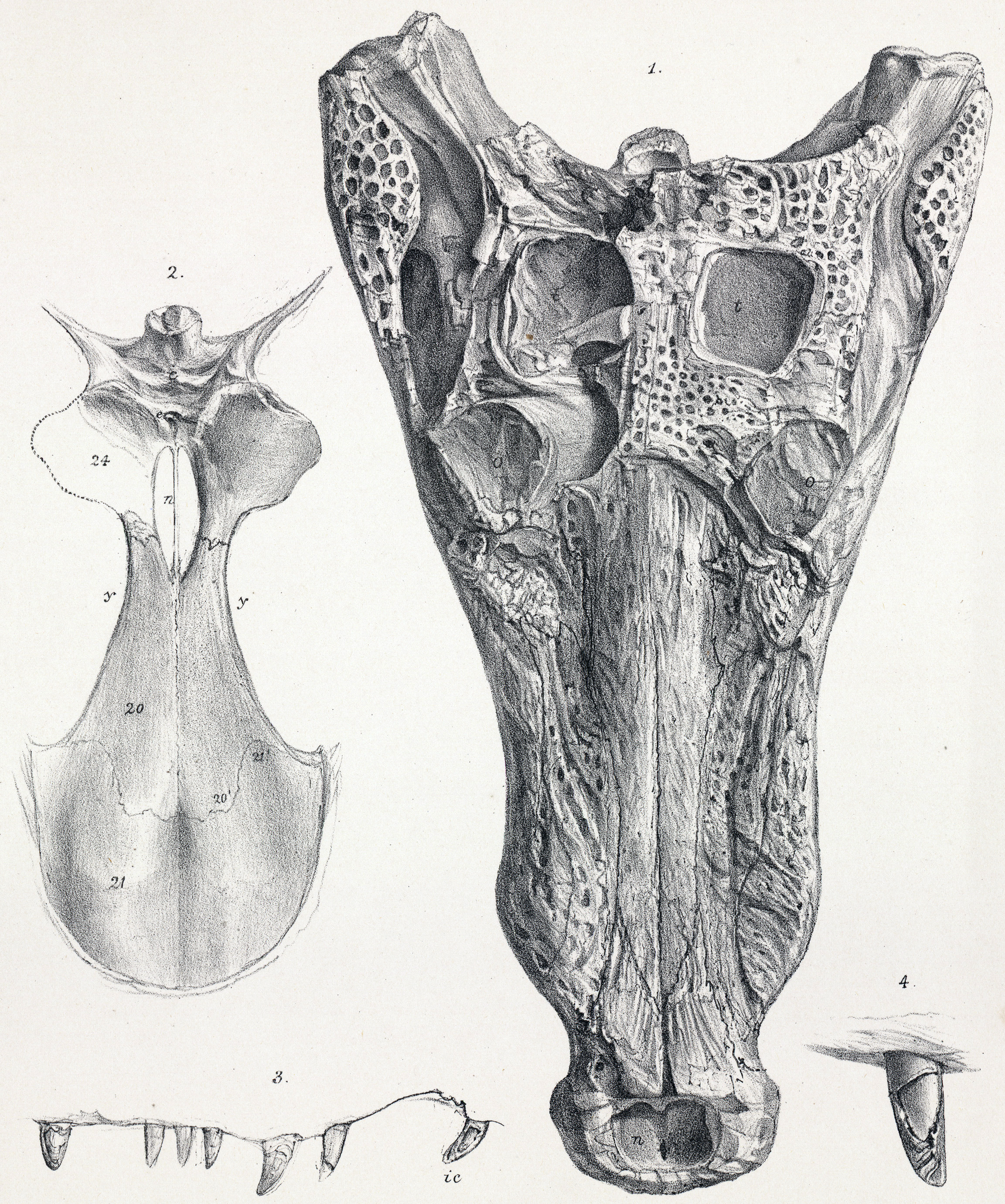 Goniopholis simus. Fig. 1. Upper surface of skull. Fig. 2. Portion of the palatal surface of the skull. Fig. 3. Portion of the alveolar border and teeth of upper jaw. Fig. 4. The largest (2nd canine) of the upper series of teeth. From the Limestone Series of the Middle Purbeck. Figs. 1-3: half nat. size; Fig. 4: nat. size.